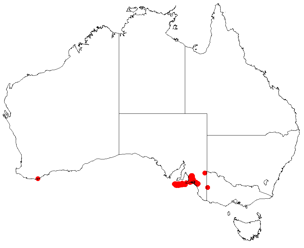 Acrotriche depressa Occurrence data from Australasian Virtual Herbarium downloaded 23 November 2018 using